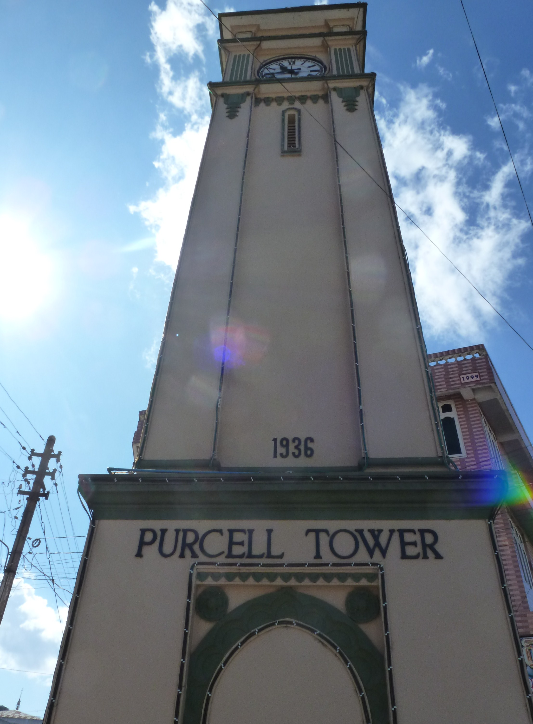 Purcell Tower, downtown Pyinoolwin